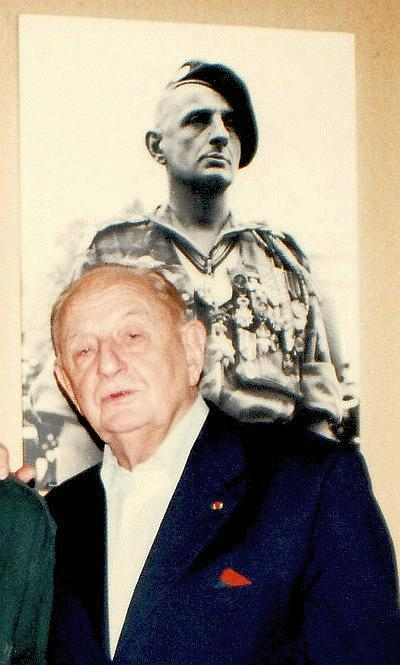 General Marcel Bigeard (aged 80) in the study of his home in Toul, France in October 1996 before a photo of him in uniform some 40 years earlier